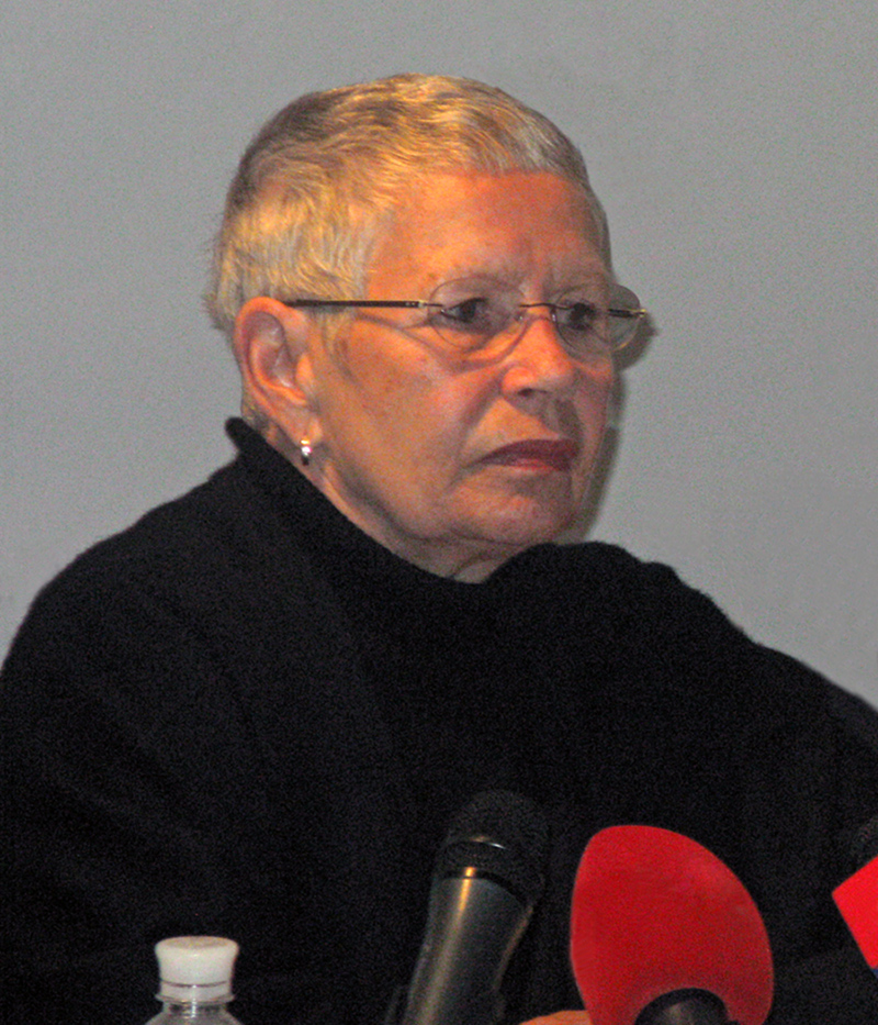 Astrid Kirchherr during the exhibition of her photographs on November 15, 2012 in Kyiv (Ukraine).